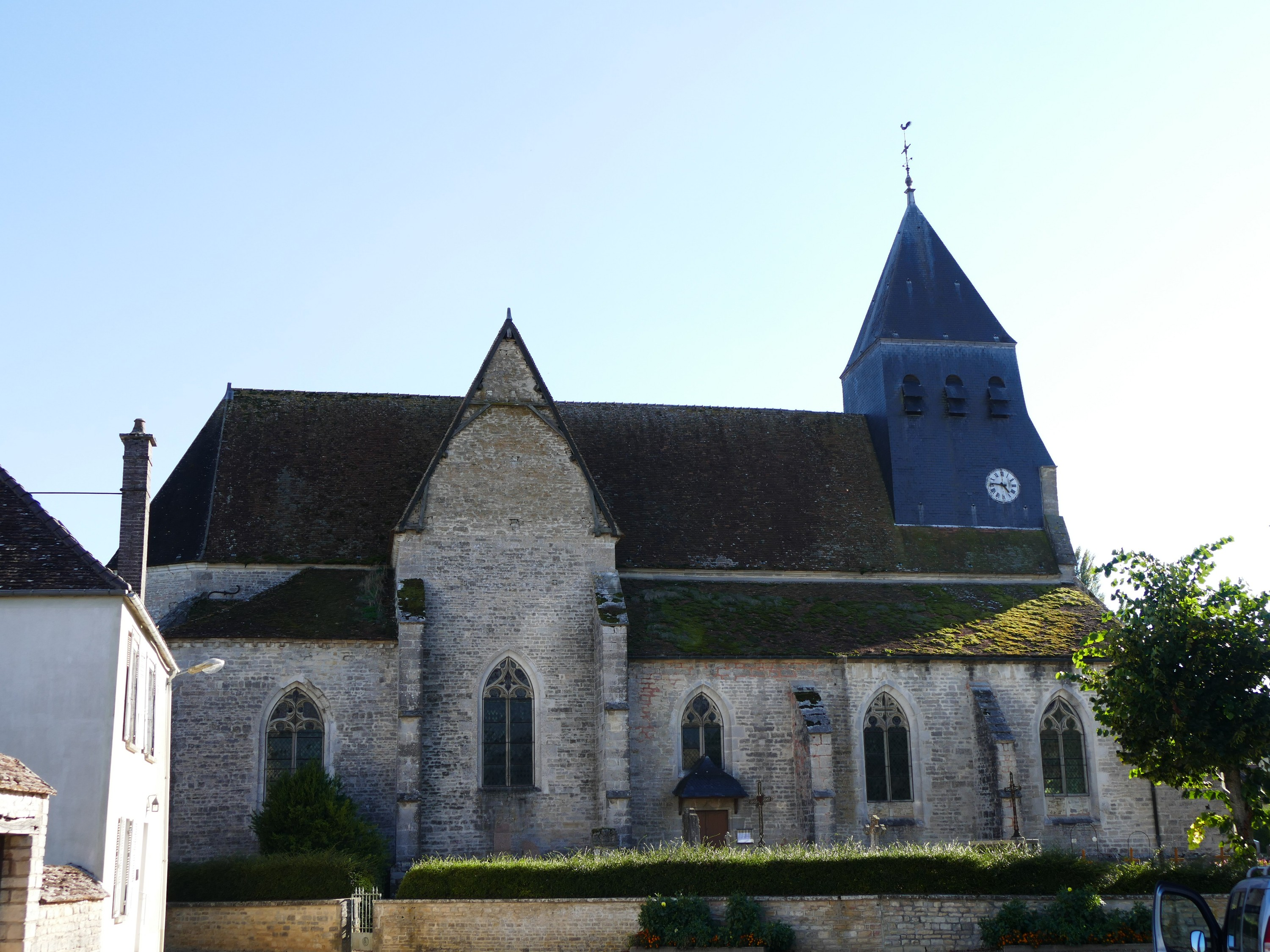 Saint-Denis' church in Polisot (Aube, Champagne-Ardenne, France).